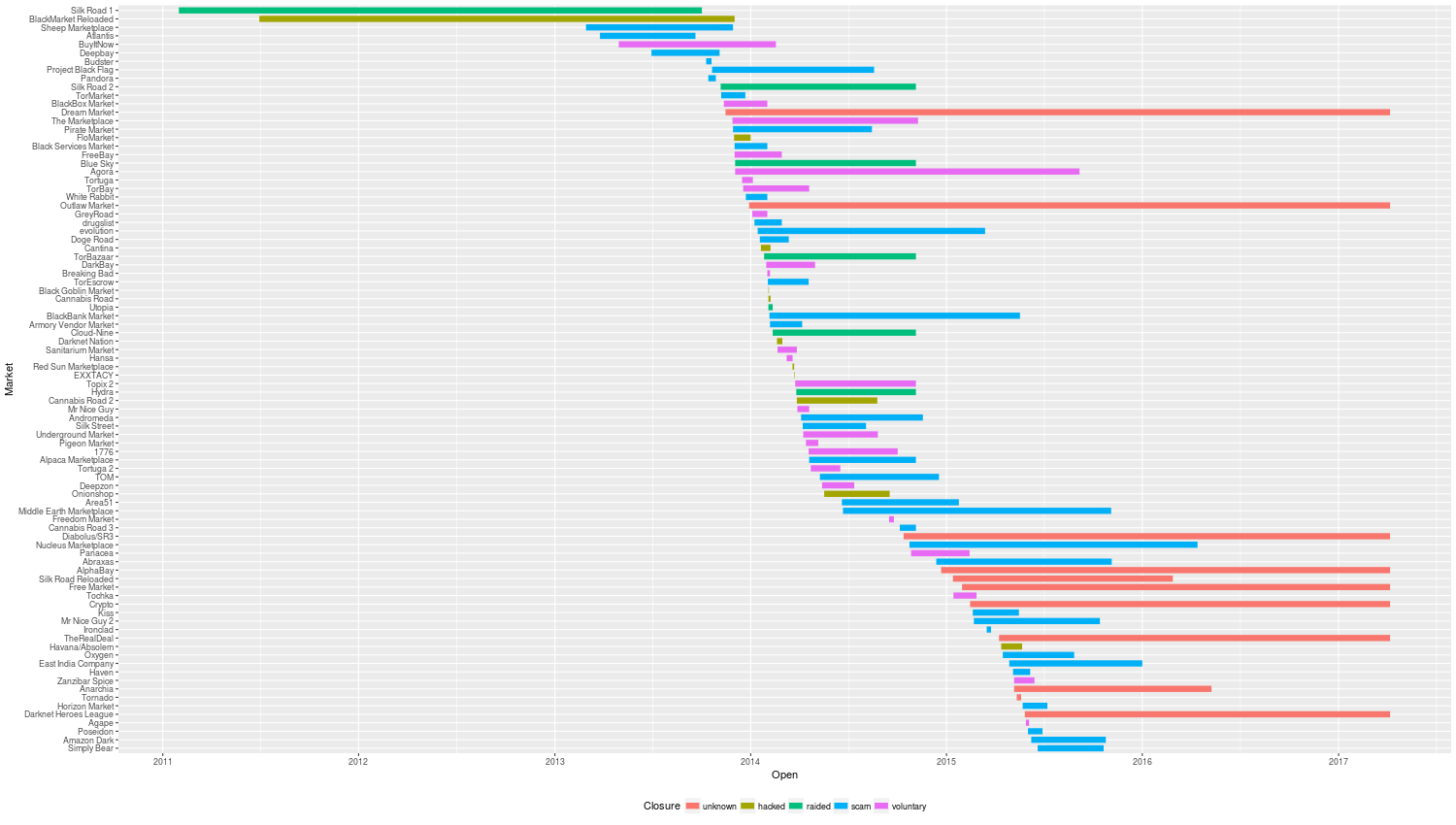 Timeline and status of darknet markets, as of April 2016 . Made by me, based on Gwern's data and his own R sources that I polished a bit. Gwern released his work by CC-0 public domain, I release my edits as CC0 too.